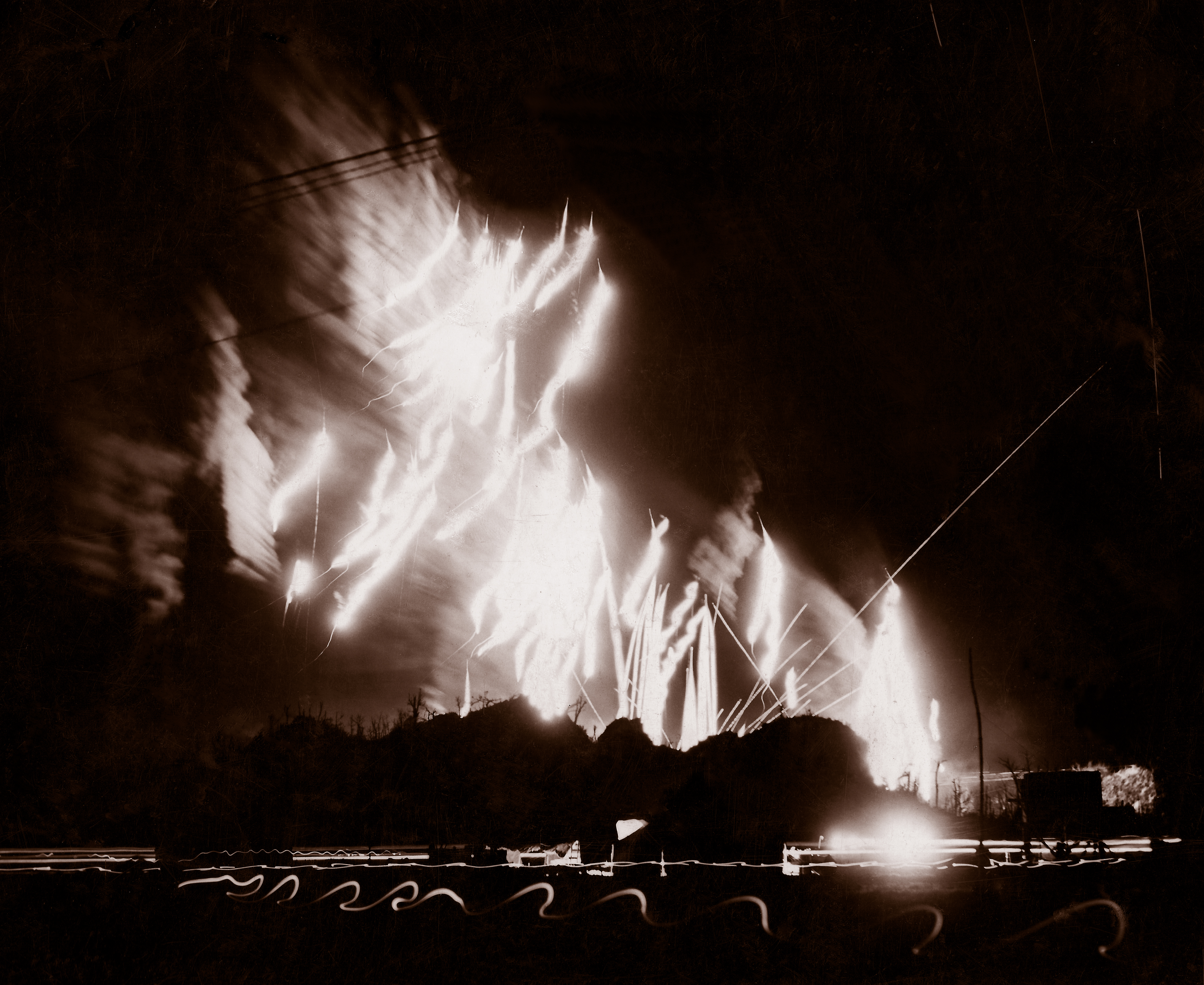 Peleliu's Great White Way, time exposure photo of Japanese attack on U.S. Marine positions, 1944. This dramatic time exposure made in the Fall of 1944 records a fierce night assault by Japanese forces against U.S. Marines on Peleliu in the Palau Islands. Japanese forces were dug in behind Bloody Nose Ridge, visible below a night sky lit up by parachute flares. The long straight lines are tracer shells from Japanese gunners firing on Marine aircraft. At the right edge of the photo, a Marine machine gun is firing. The headlights of a passing Jeep are recorded. The wavy line is from a flashlight carried by a Marine as he runs for cover. The bright burst of light at the lower right is from a motion picture projector showing a movie just prior to the attack. This incredible picture was made by SSgt. William G. Wilson, USMC, a combat cameraman with the 2nd Marine Air Wing. The photo was published in over 500 newspapers and was recognized by CDR Edward Steichen, Chief of Naval Photography, as one of the best pictures depicting action in the Pacific theater.